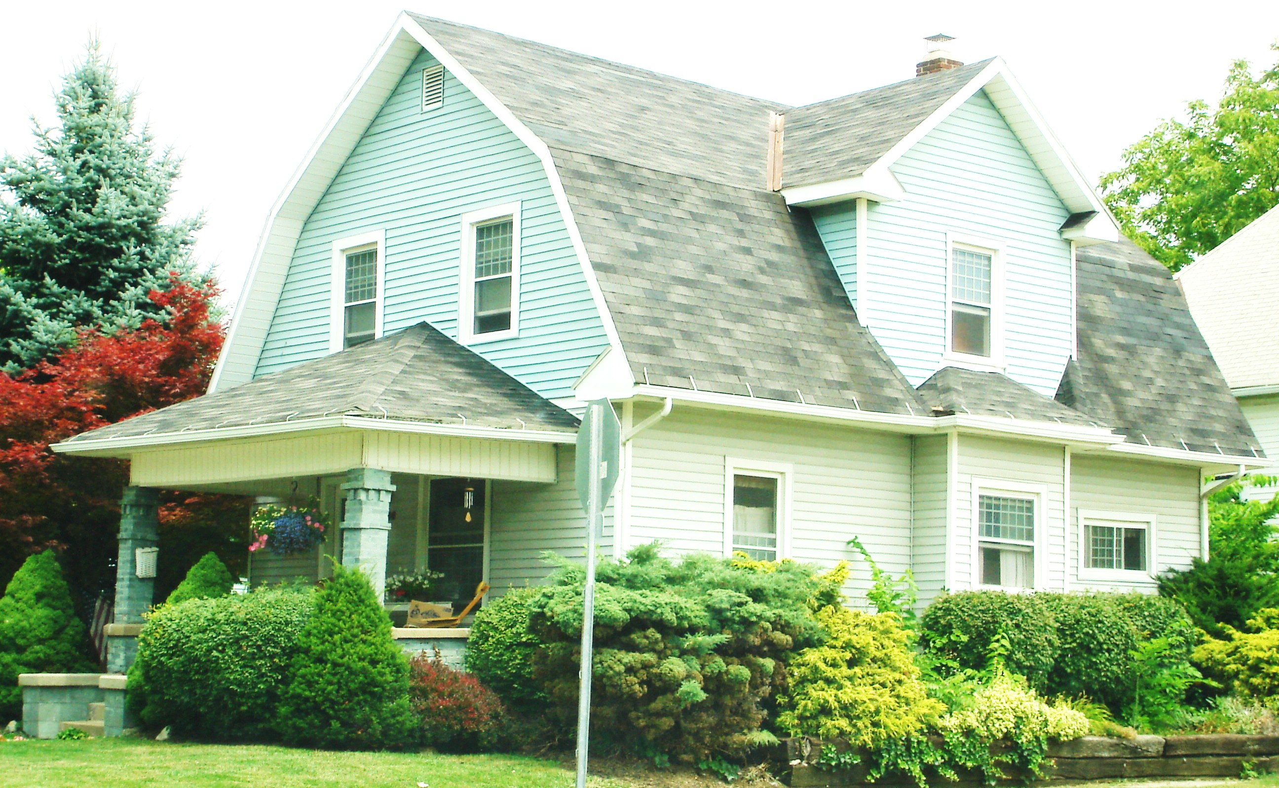 Dutch Colonial Revival house in Marysville, Ohio, United States